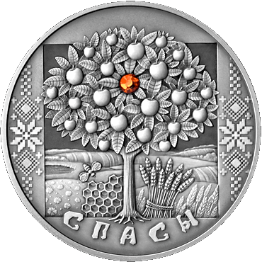 "Spasy", Silver commemorative coins, denomination: 20 rubles